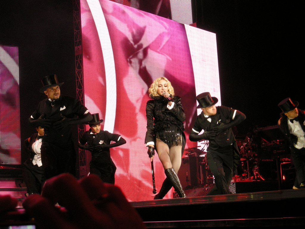 Madonna - Amsterdam ArenA - September 2,2008